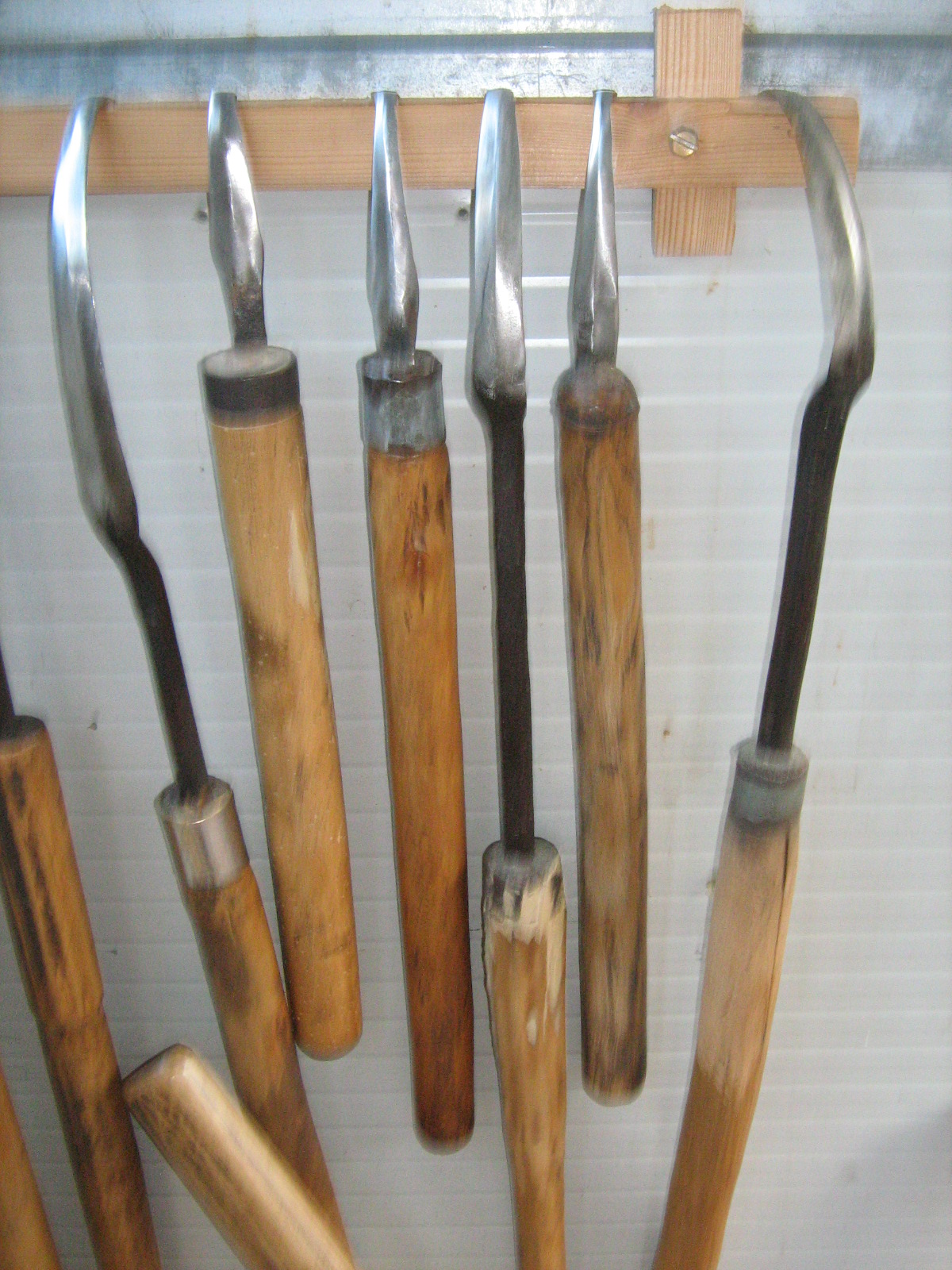 tools used to make a pair of sabot shooes